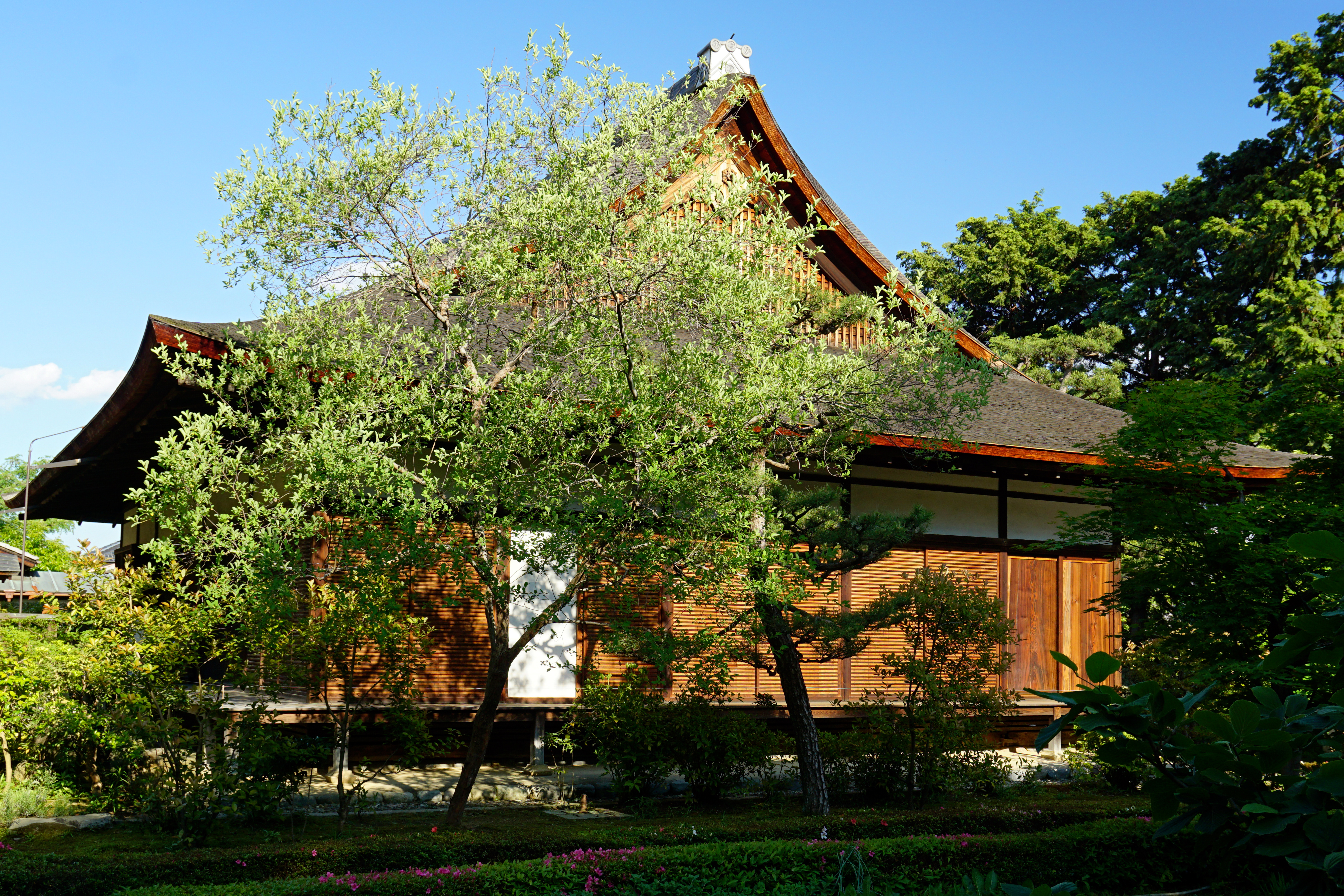 Fumonji in Takatsuki, Osaka prefecture, Japan